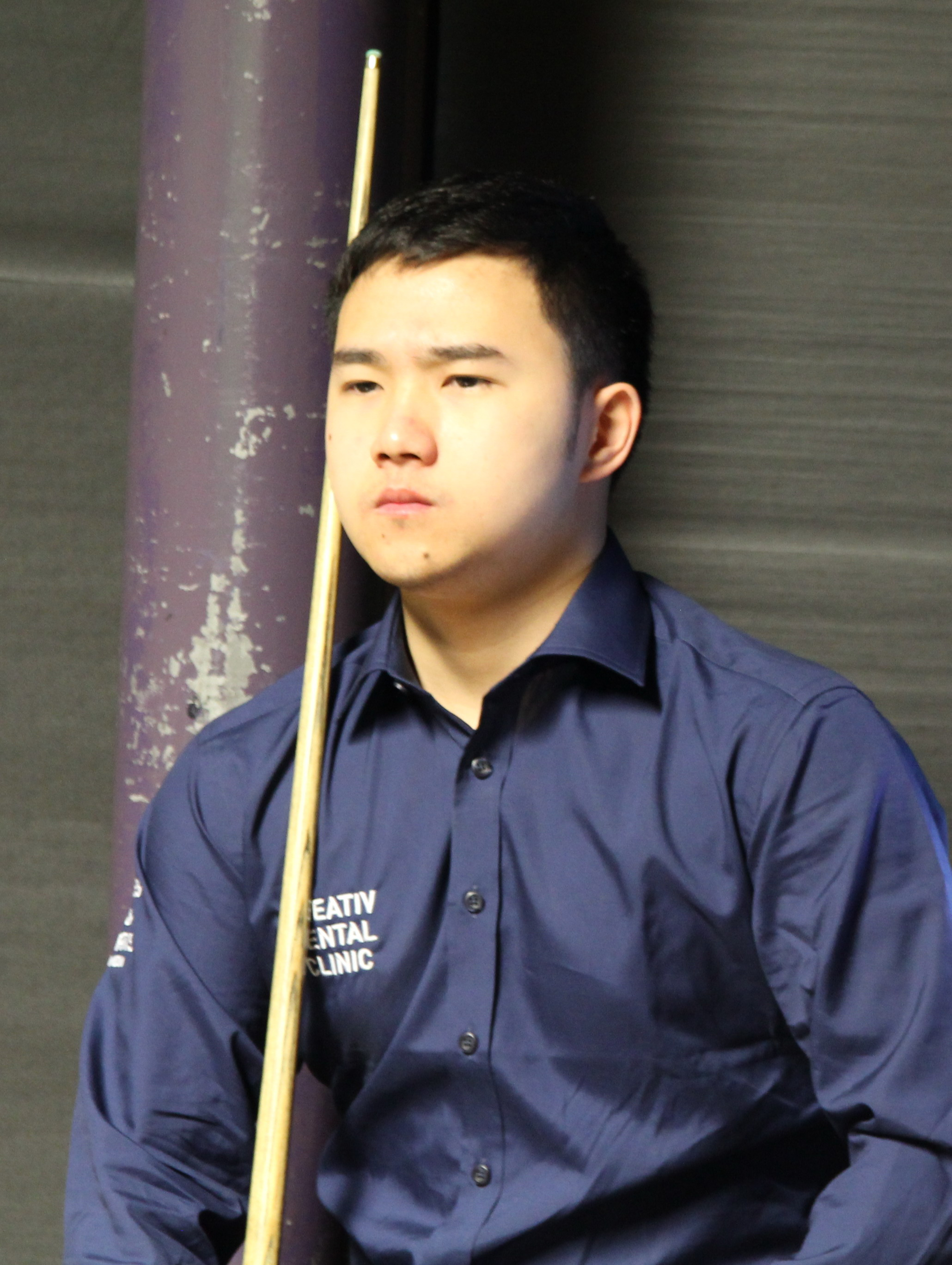 Thanawat Thirapongpaiboon beim Paul Hunter Classic 2015